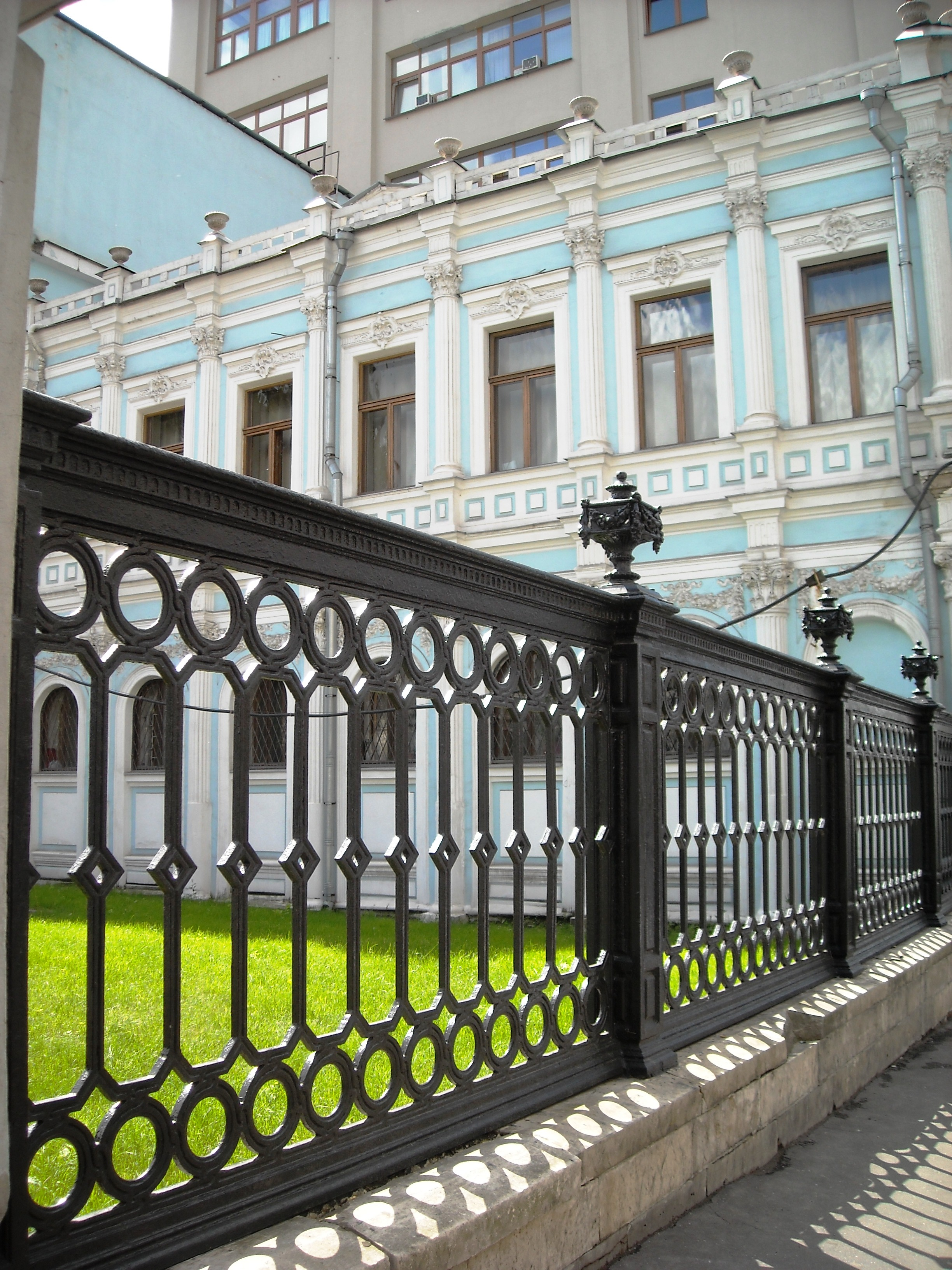 Rostopchin